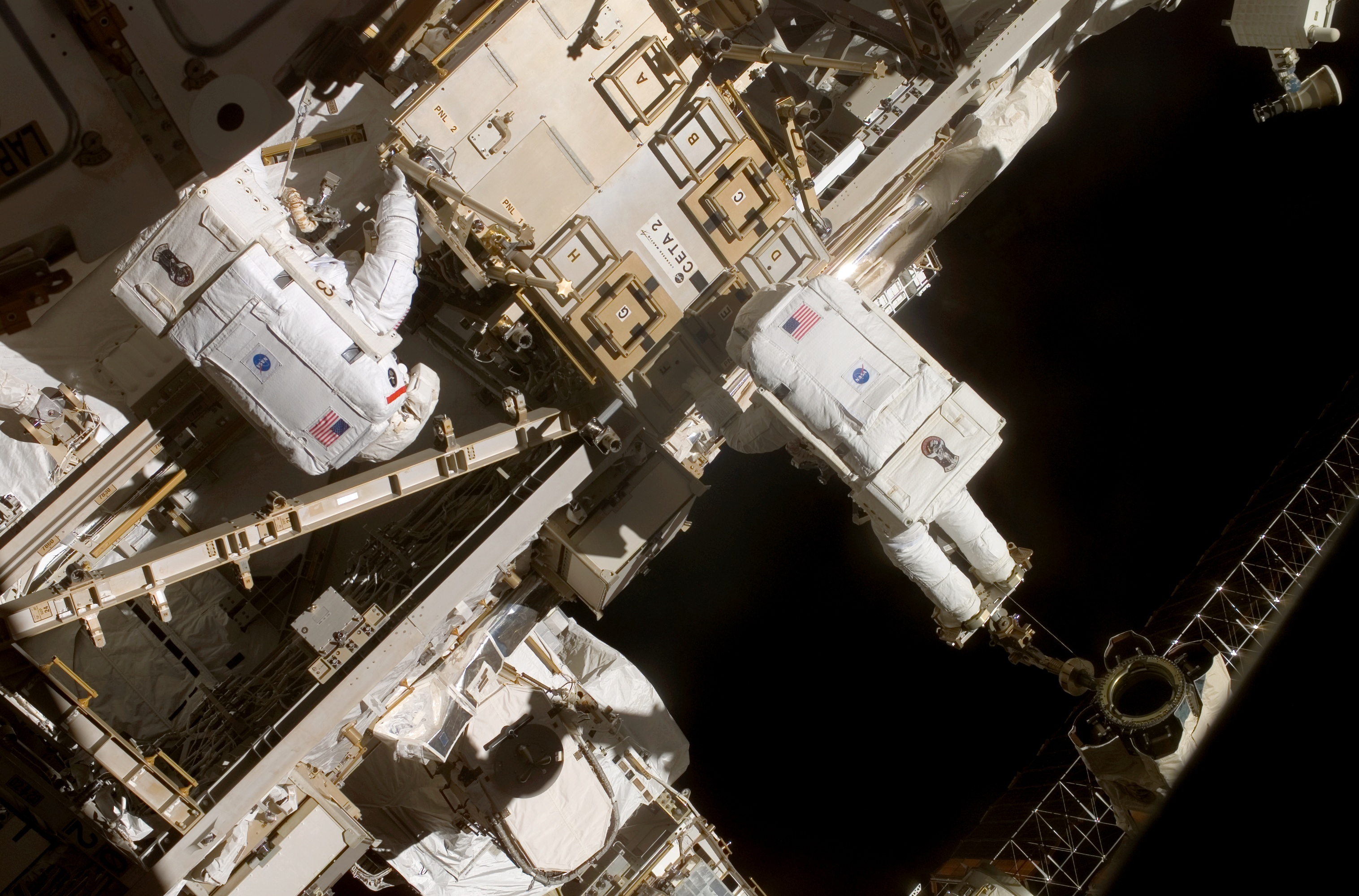 Anchored to the International Space Station's Canadarm2 foot restraint, ESA astronaut Christer Fuglesang (right) works in tandem with astronaut Robert Curbeam, during the mission's second extravehicular activity (EVA) as construction resumes on the station.